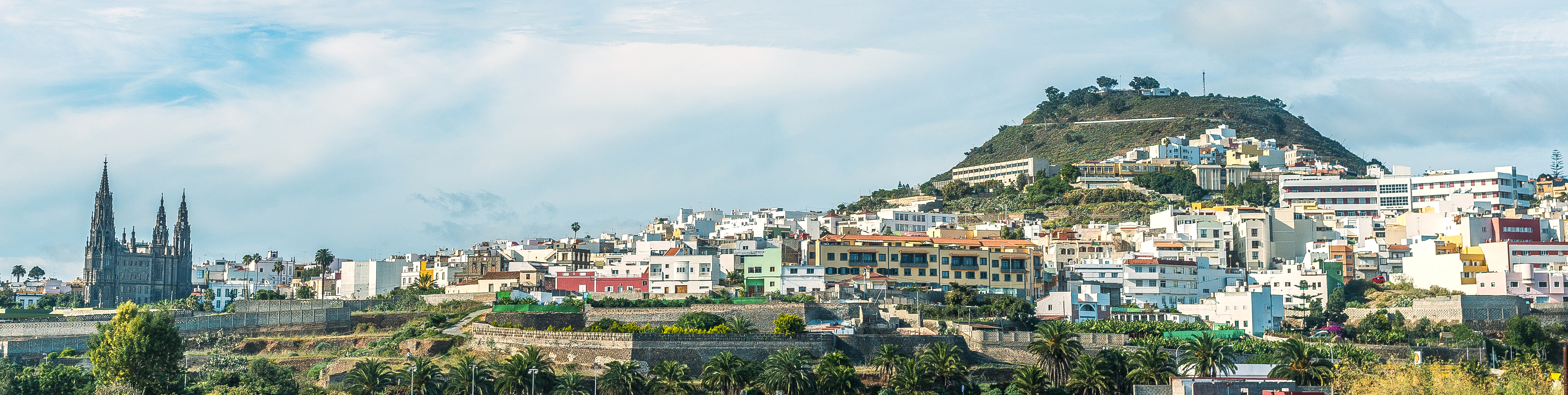 Arucas Gran Canaria January 2016